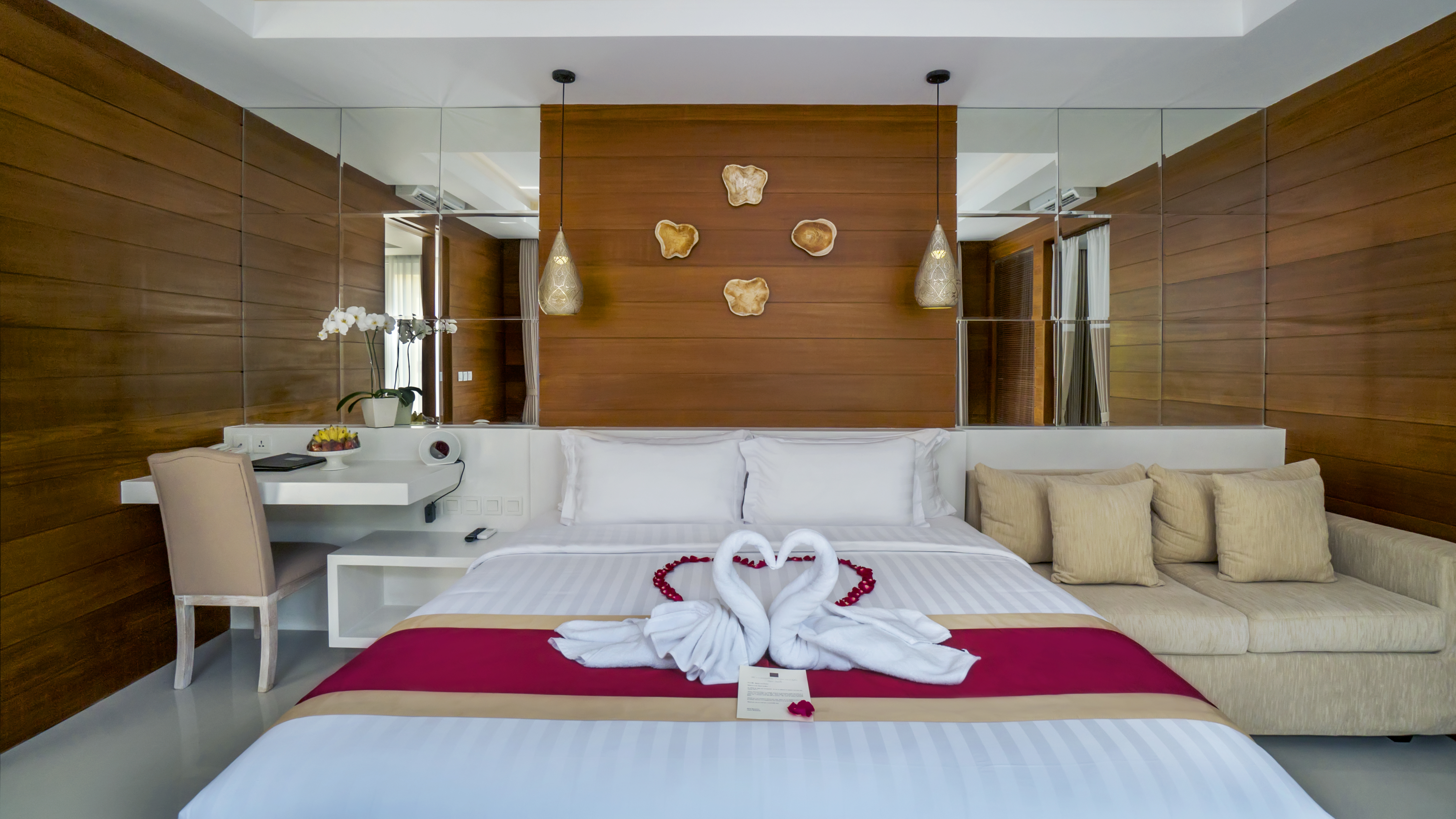 contoh fotogarfi arsitektur